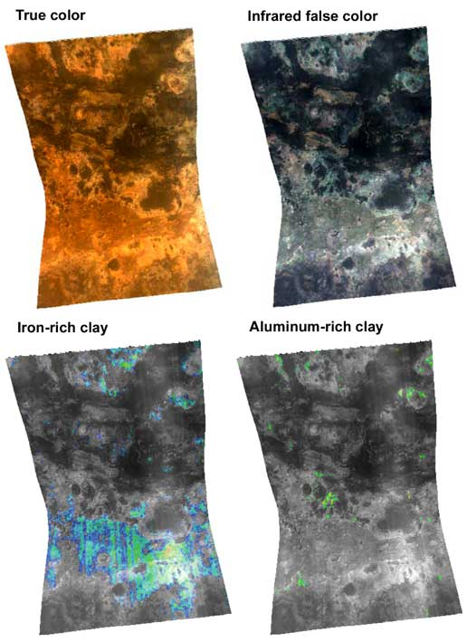 Spectrometer Observations near Mawrth Vallis